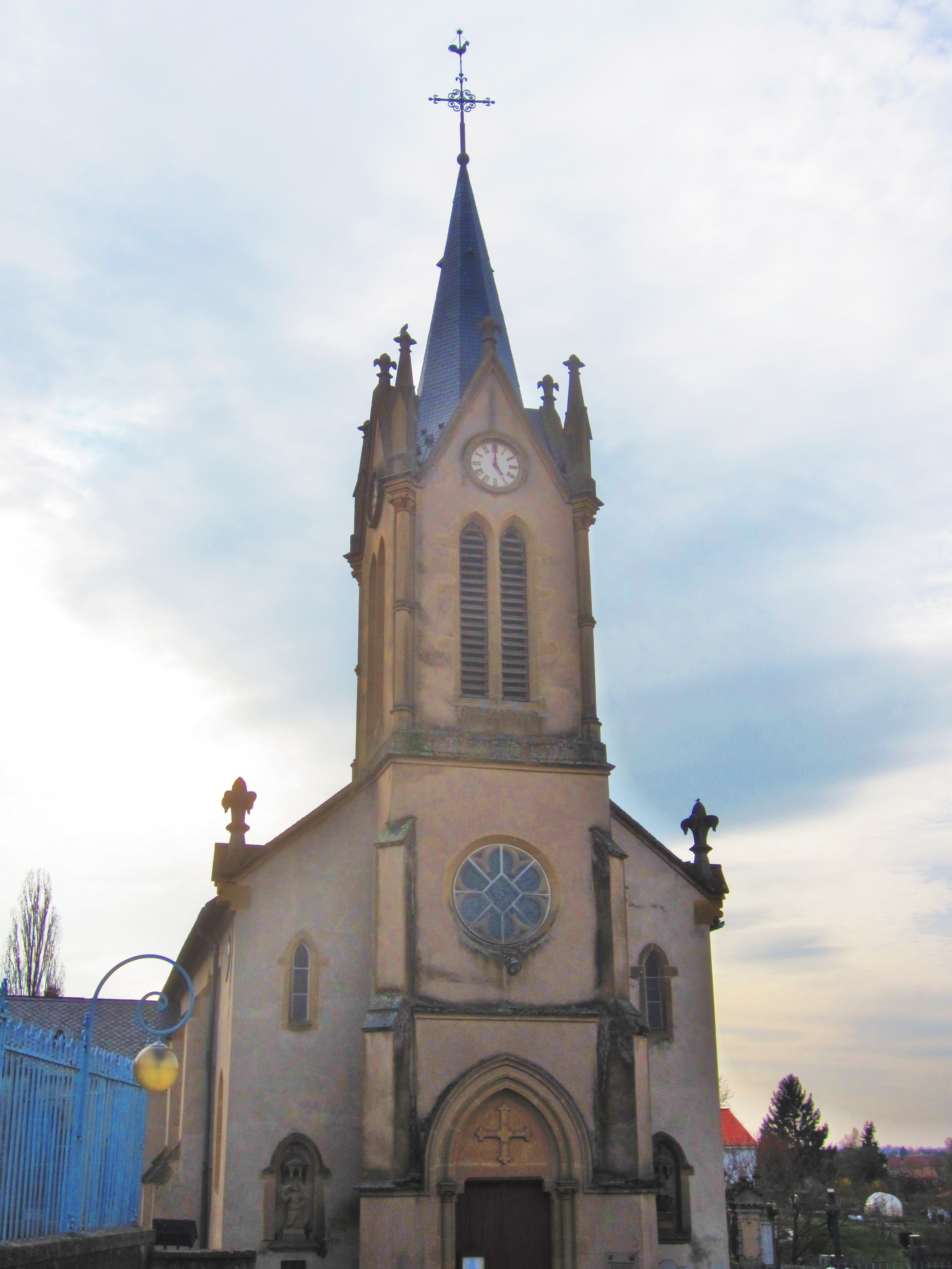 Cherisey church